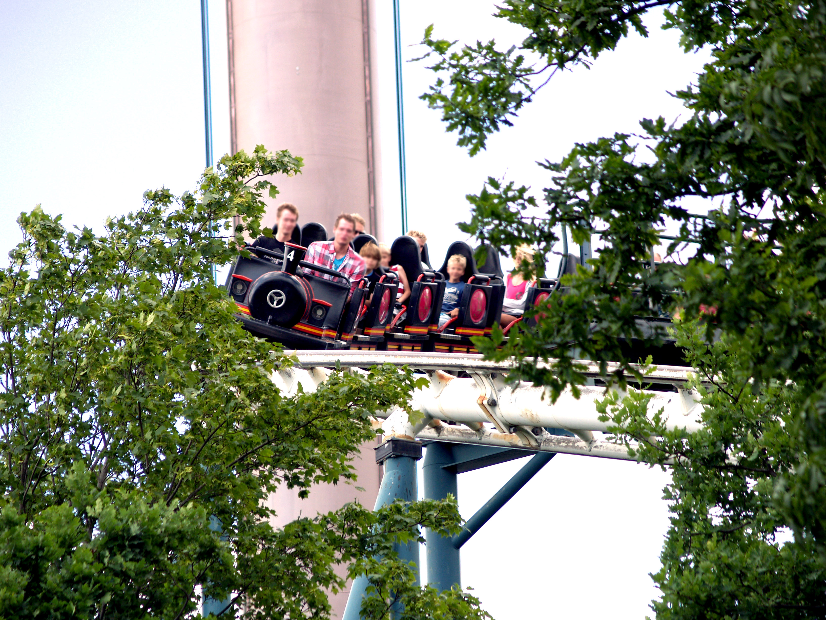 Lisebergbanan at Liseberg in Gothenburg, Sweden. Liseberg tower in the background.